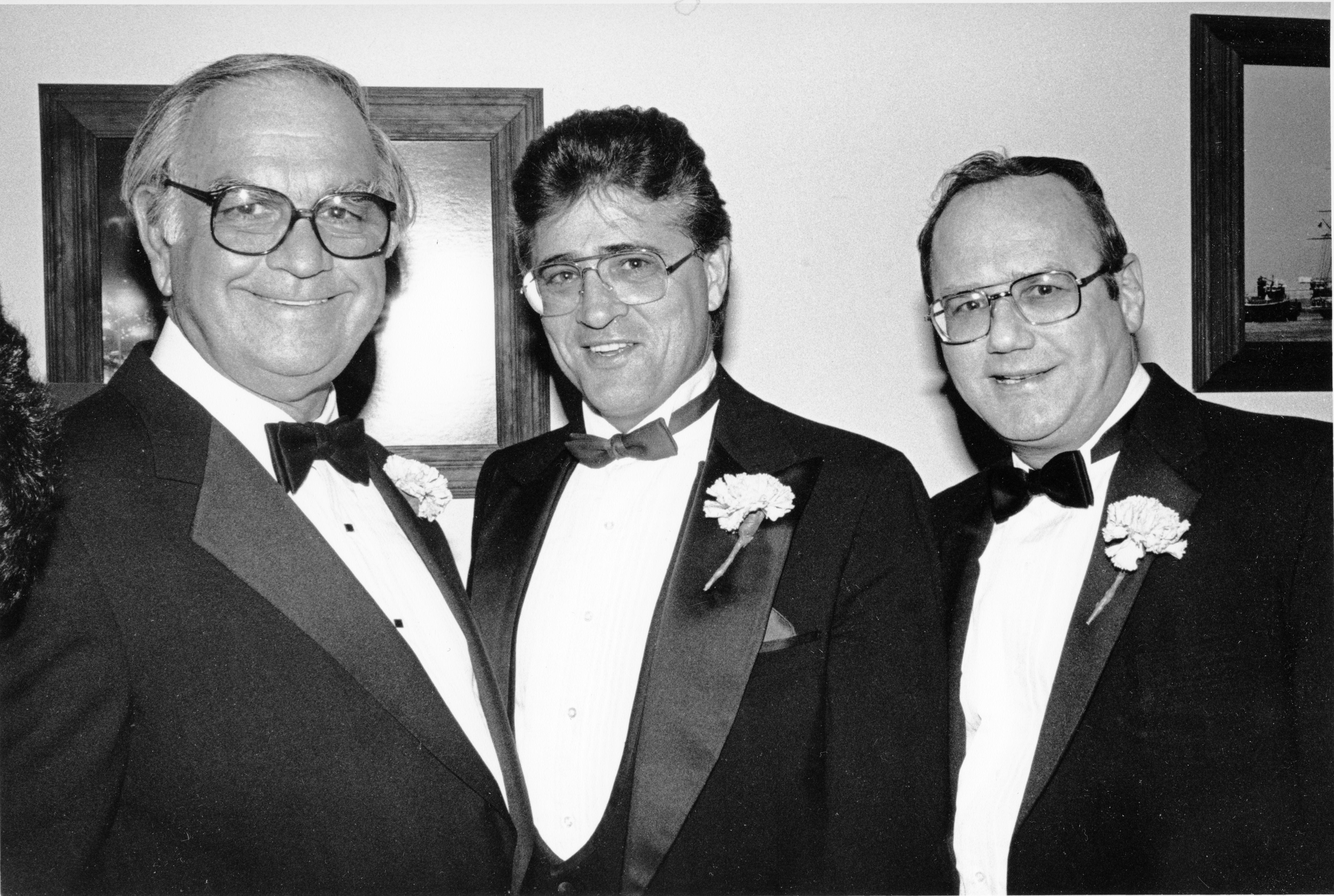 Title: Representative John Joseph "Joe" Moakley, Councilor Joseph Tierney, Councilor James Kelly Creator: Mayor's Office - City Photographer Date: circa 1984-1987 Source: Mayor Raymond L. Flynn records, Collection #0246.001 File name: RF_0215 Rights: Copyright City of Boston Citation: Mayor Raymond L. Flynn records, Collection #0246.001, City of Boston Archives, Boston